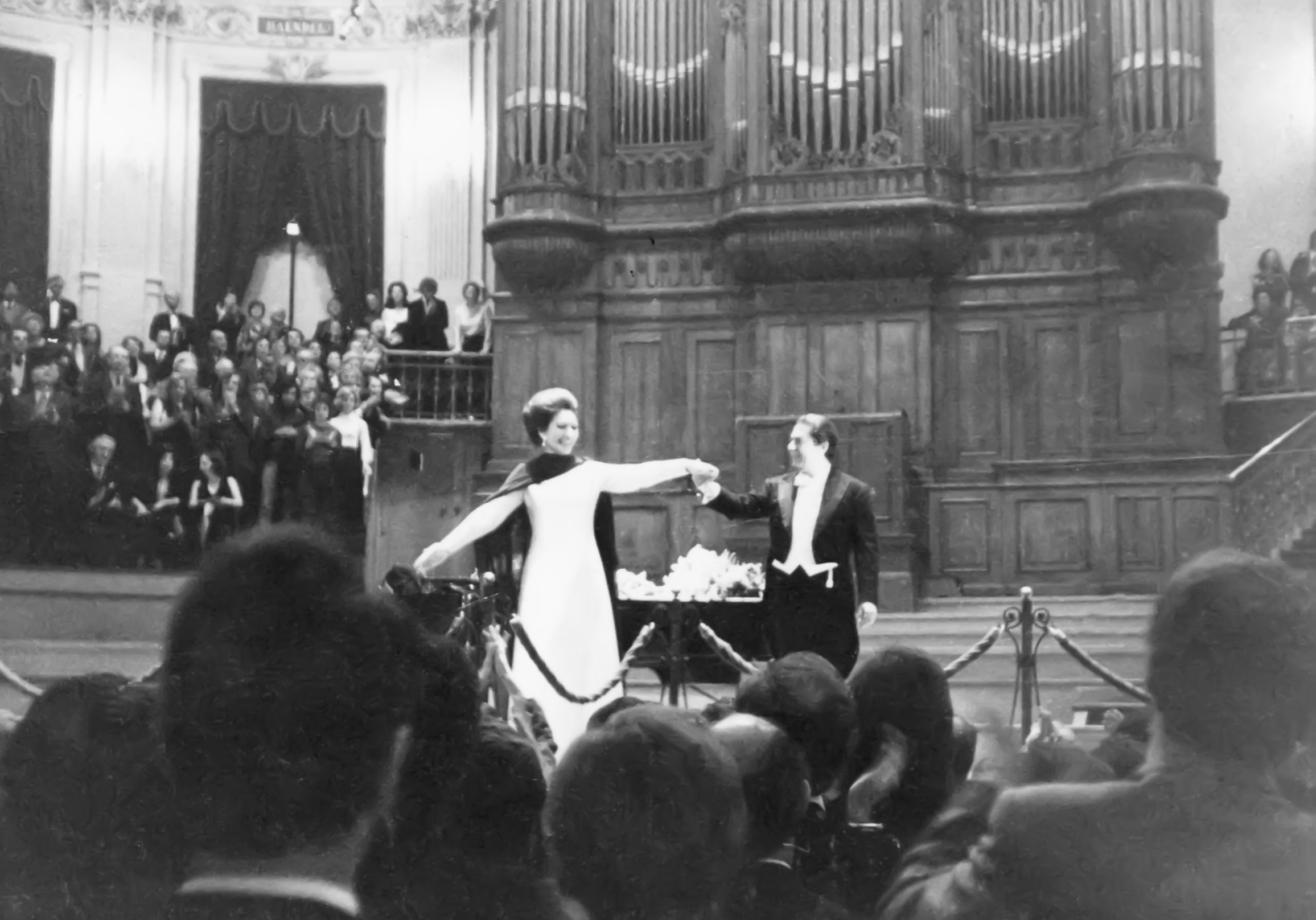 The final tour of Maria Callas in Amsterdam